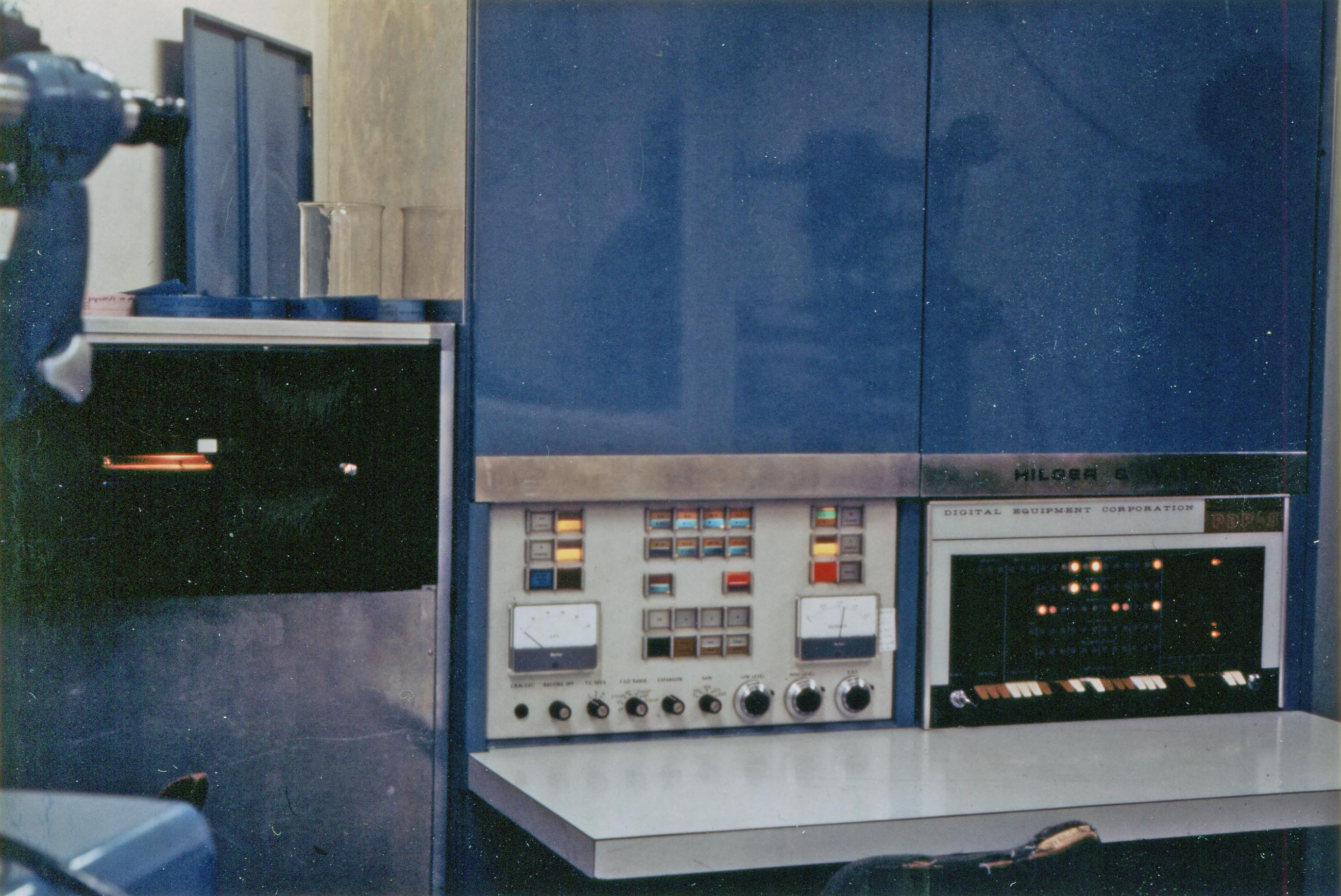 Control electronics for a Hilger and Watts Y290 four-circle X-ray diffractometer at the University of Oxford (photo: Prof. D. Watkin).